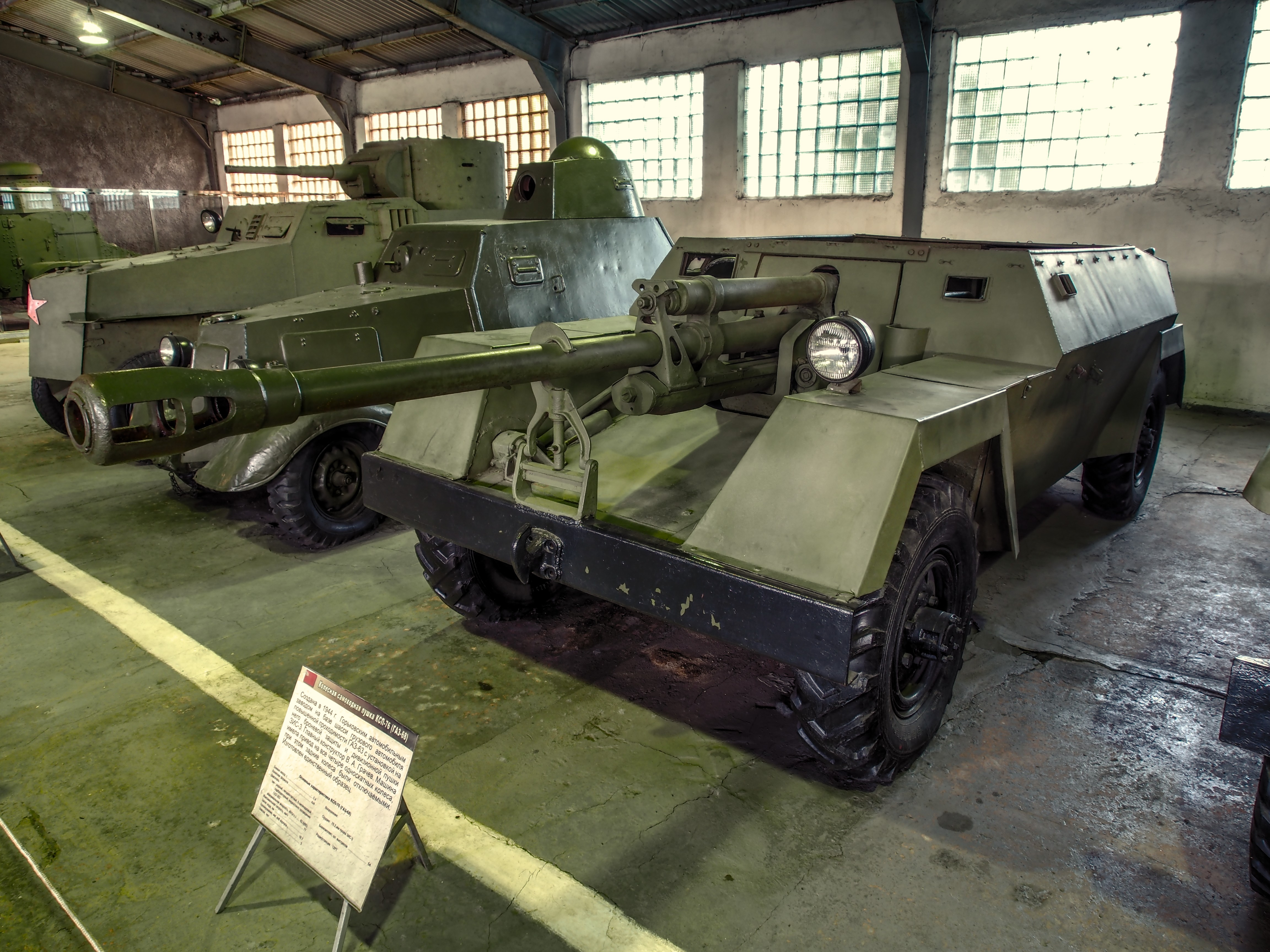 Wheeled self-propelled gun KCB-76 (GAZ-68) in the Kubinka tank museum.